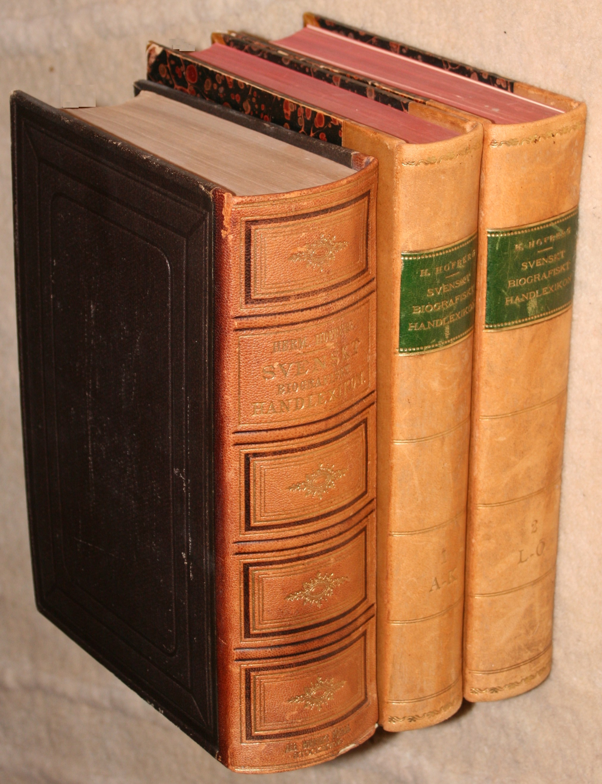 Covers of Svenskt biografiskt handlexikon (Swedish biographic dictionary), to the left the 1st edition (1876) in one volume, to the right the 2nd edition (1906) in two volumes.